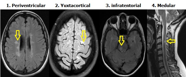 Localización más frecuente de lesiones desmielinizantes en IRM Periventricular (alrededor de sistema ventricular), yuxtacortical (junto a corteza cerebral), infratentorial (debajo de la tienda del cerebelo)